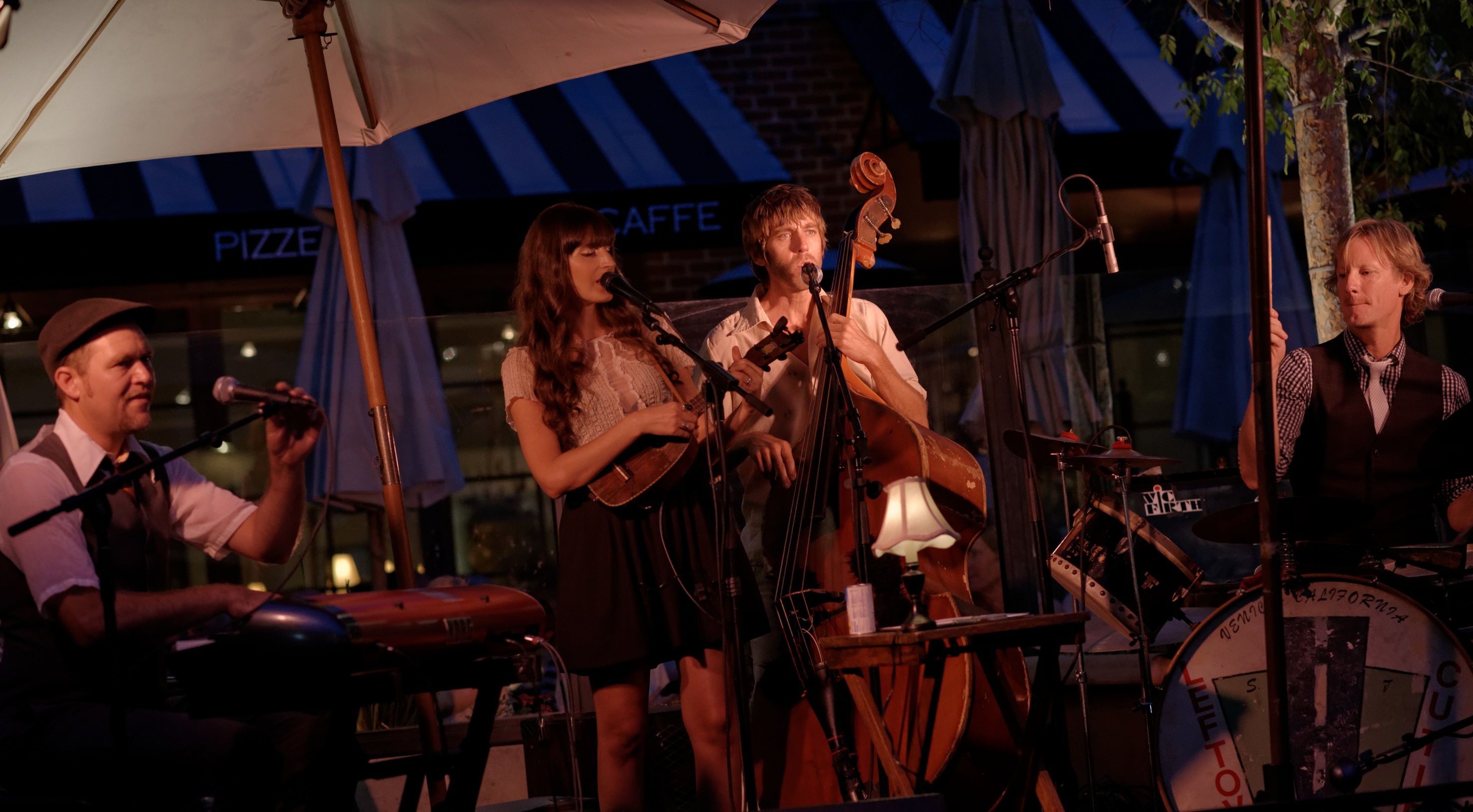 Leftover Cuties performing live at One Colorado in Old Pasadena California on Saturday August 2nd, 2014